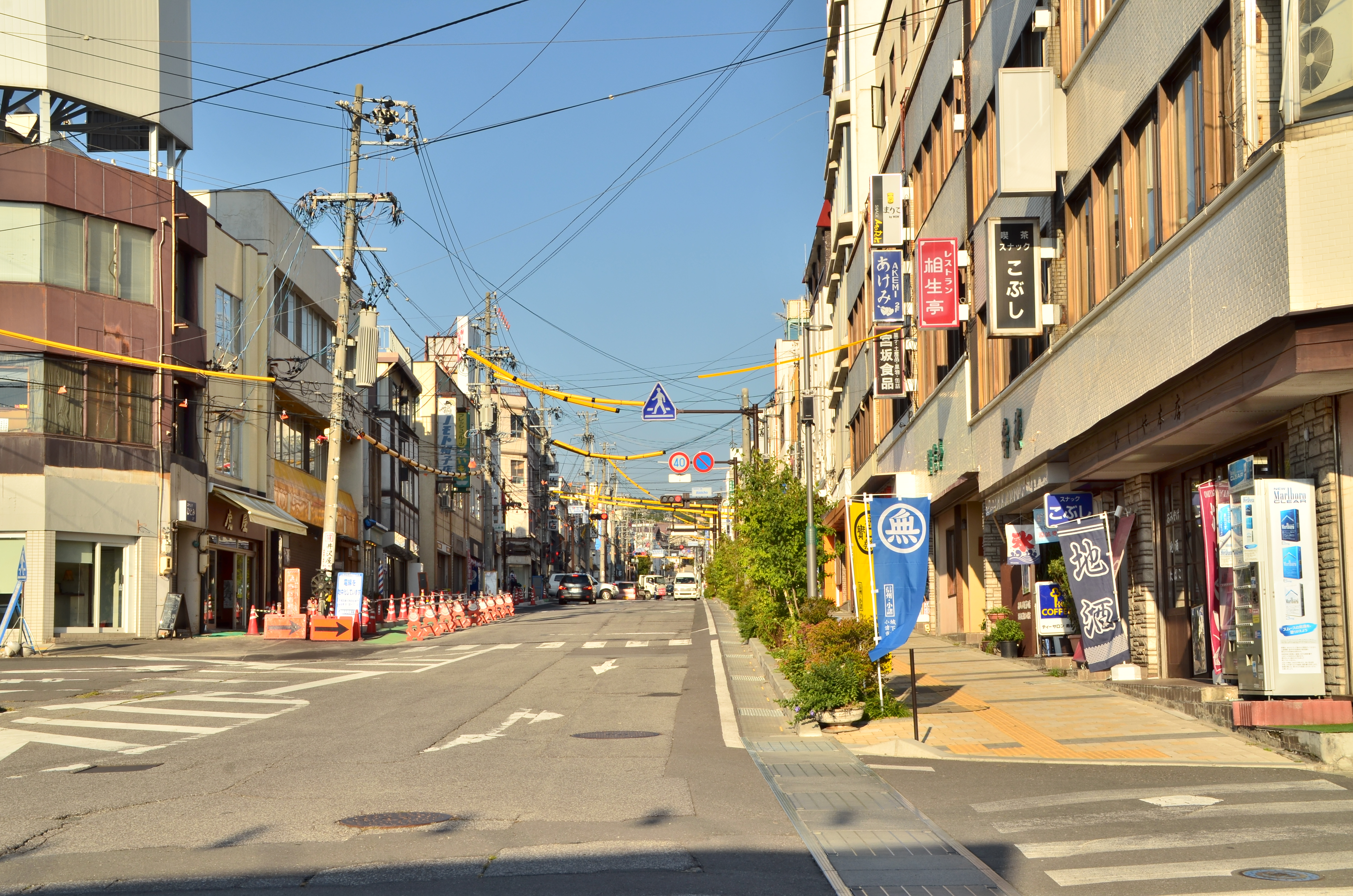 1 Chome-1 Aioichō, Komoro city, Nagano prefecture, 384-0025, Japan